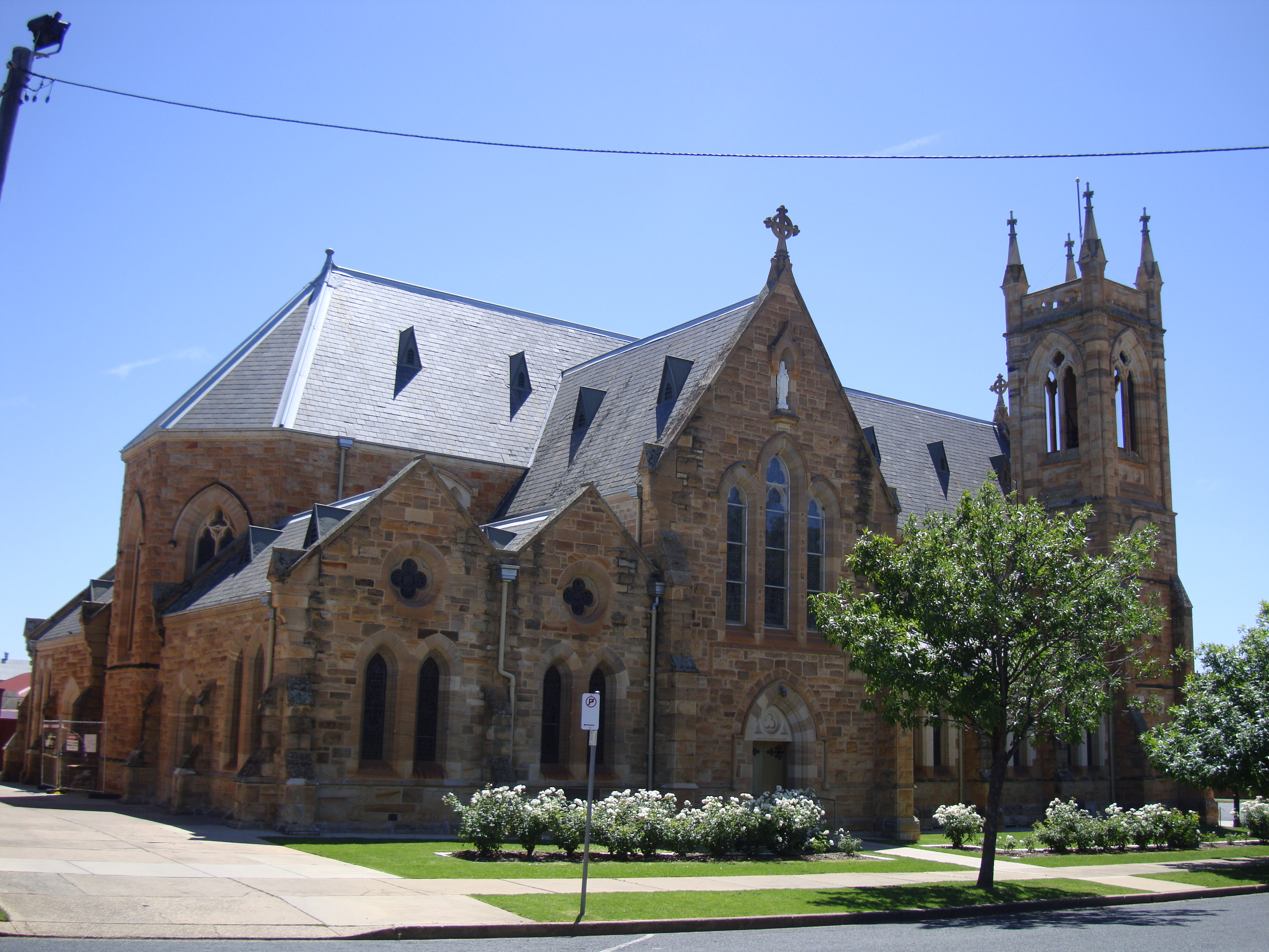 Photograph of St Michael's Cathedral, Wagga Wagga, New South Wales, Australia